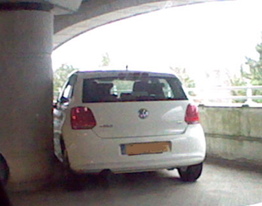 A car parked illegally